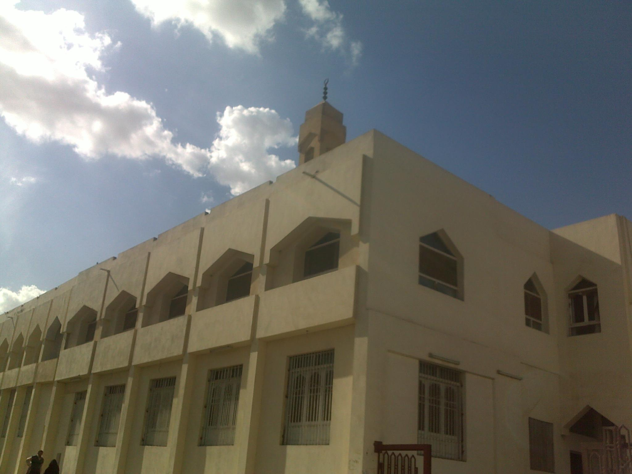 The Al-Tawheed Mosque in 10th of Ramadan City, Egypt, founded by Safwat al-Shwadify.